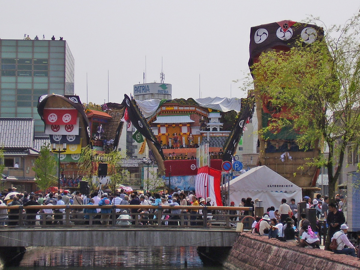 Crowds during Nanao festival